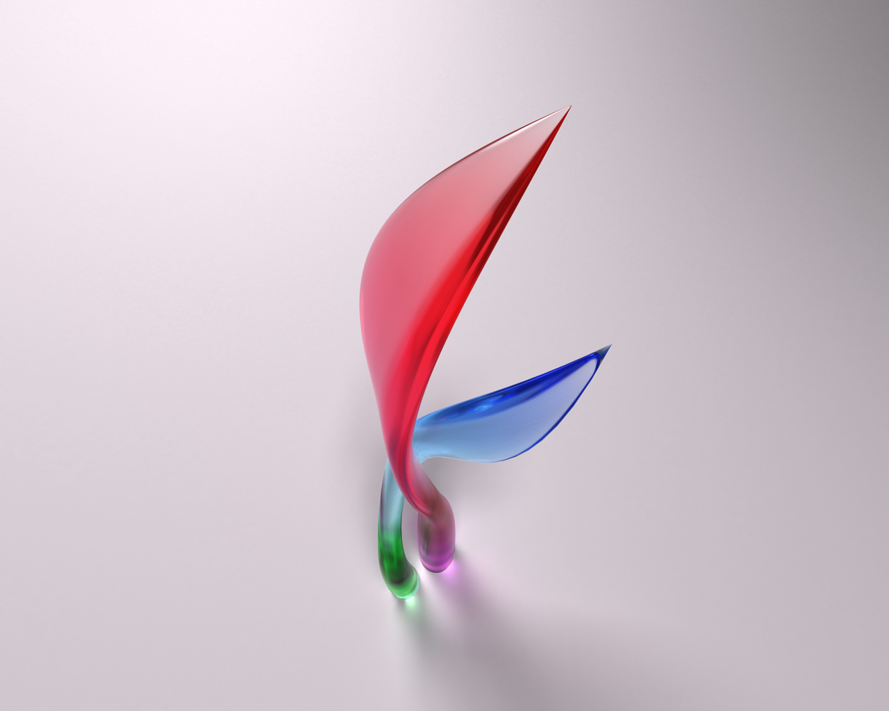 By: Mehran Moghtadai FG rays were at 260 000 accuracy and the radii was at 5cm max and 0.1cm min. Those do seem like big numbers but Each statue is about 5m tall so... 5cm is not that big. The contrast was set to 0.005 which is also accurate. MR wouldn't let me get to 0.001. This mad render was done slightly under 10hrs on my new pc. On my older pc it would've taken about 24hrs. The models were done in Nurbs and smoothed out using the everso inefficient HSDS. The material is L_glass on both with a factor of 0.2 dispersion.